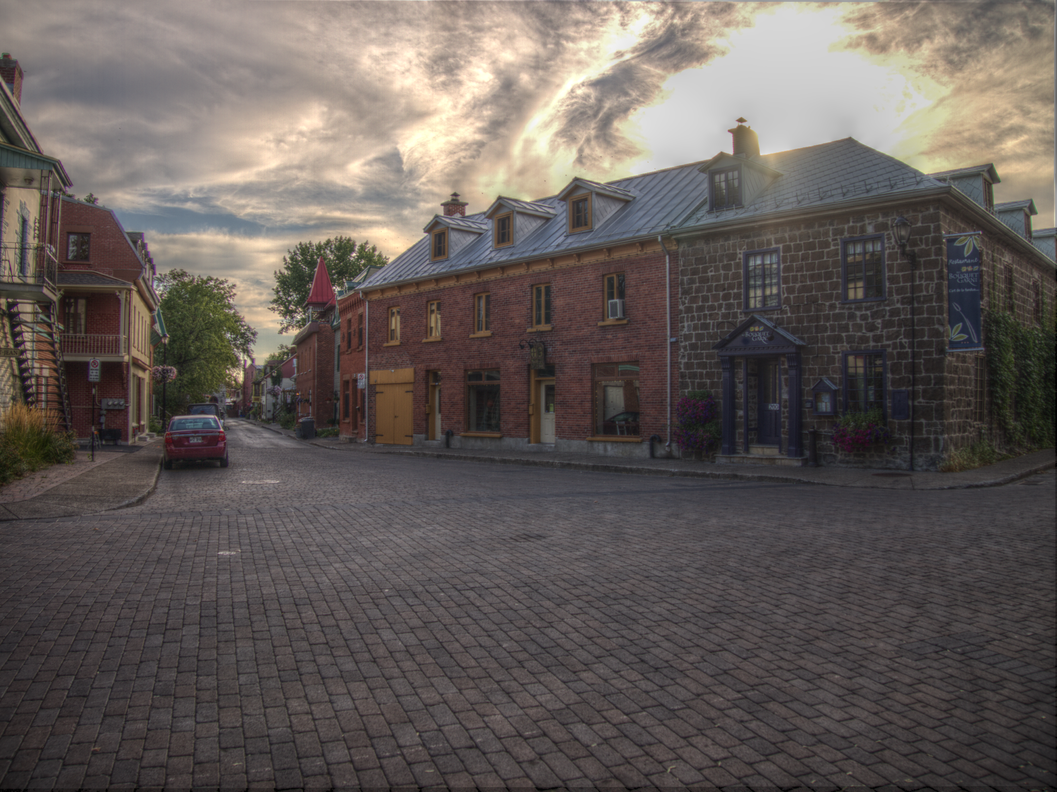 Rue Sainte-Marie in L'arrondissement historique de La Prairie, seen from the corner of Saint-Jean. Looking south-south-west. HDR done with Luminance HDR.